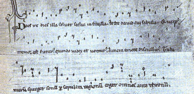 Fragment of sequence «Dies irae».